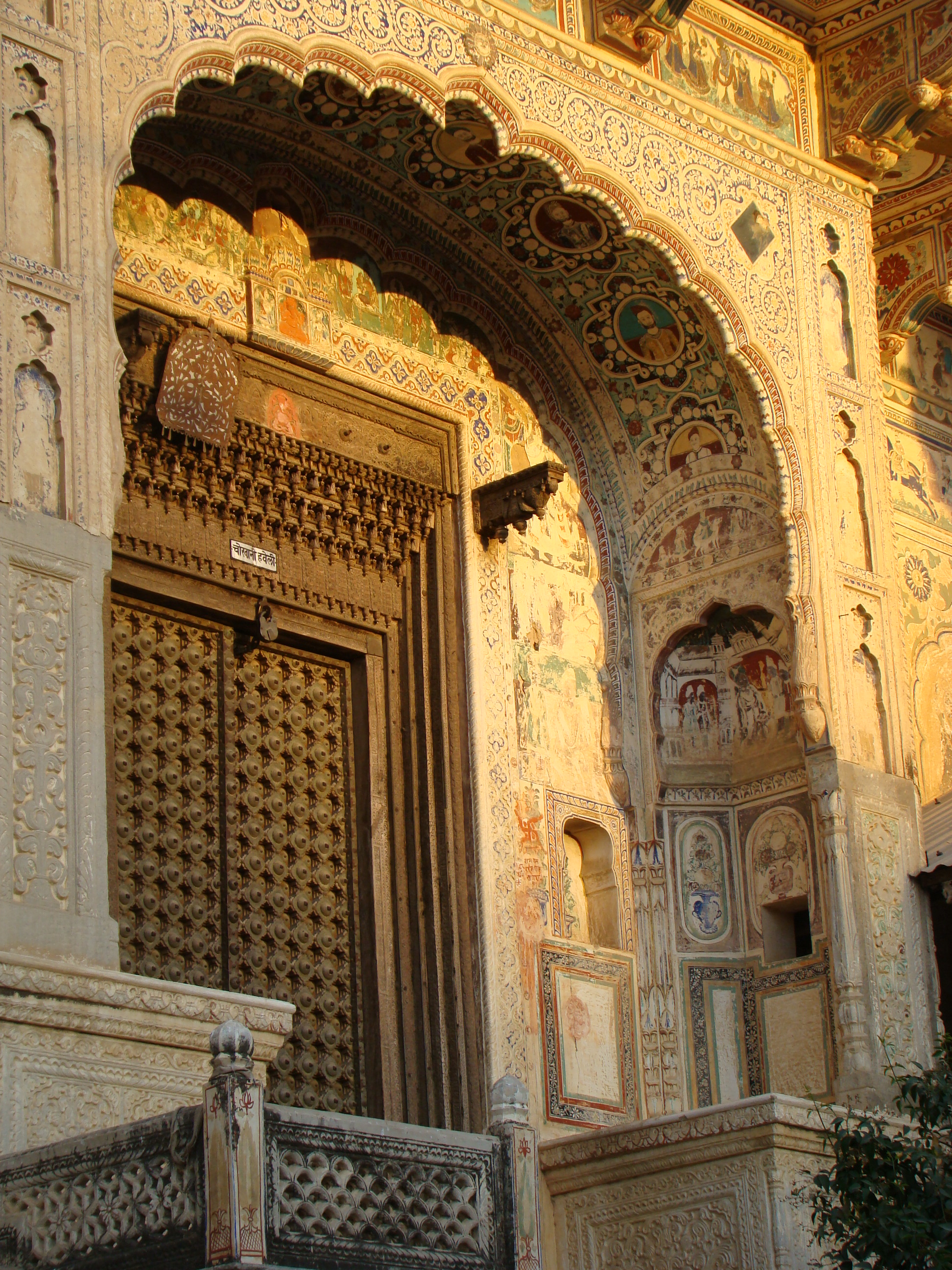 One of the many havelis (typical houses-palaces) in Rajasthan.